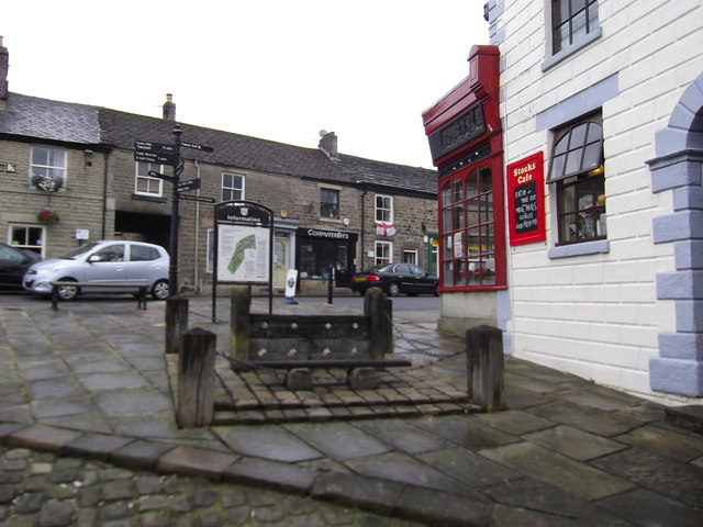 On the south side of the Market Place. 18th century. Just outside the appropriately named "Stocks Cafe".